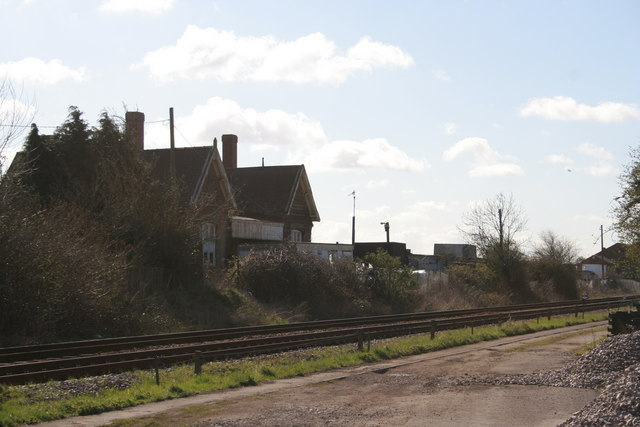 Gosberton Railway Station. Now closed but used as an industrial site